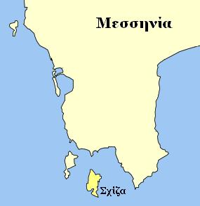 Schiza (Σχίζα) is a Greek island off the southwestern coast of the Peloponnese. Administratively it is part of the municipality of Methoni in Messenia.